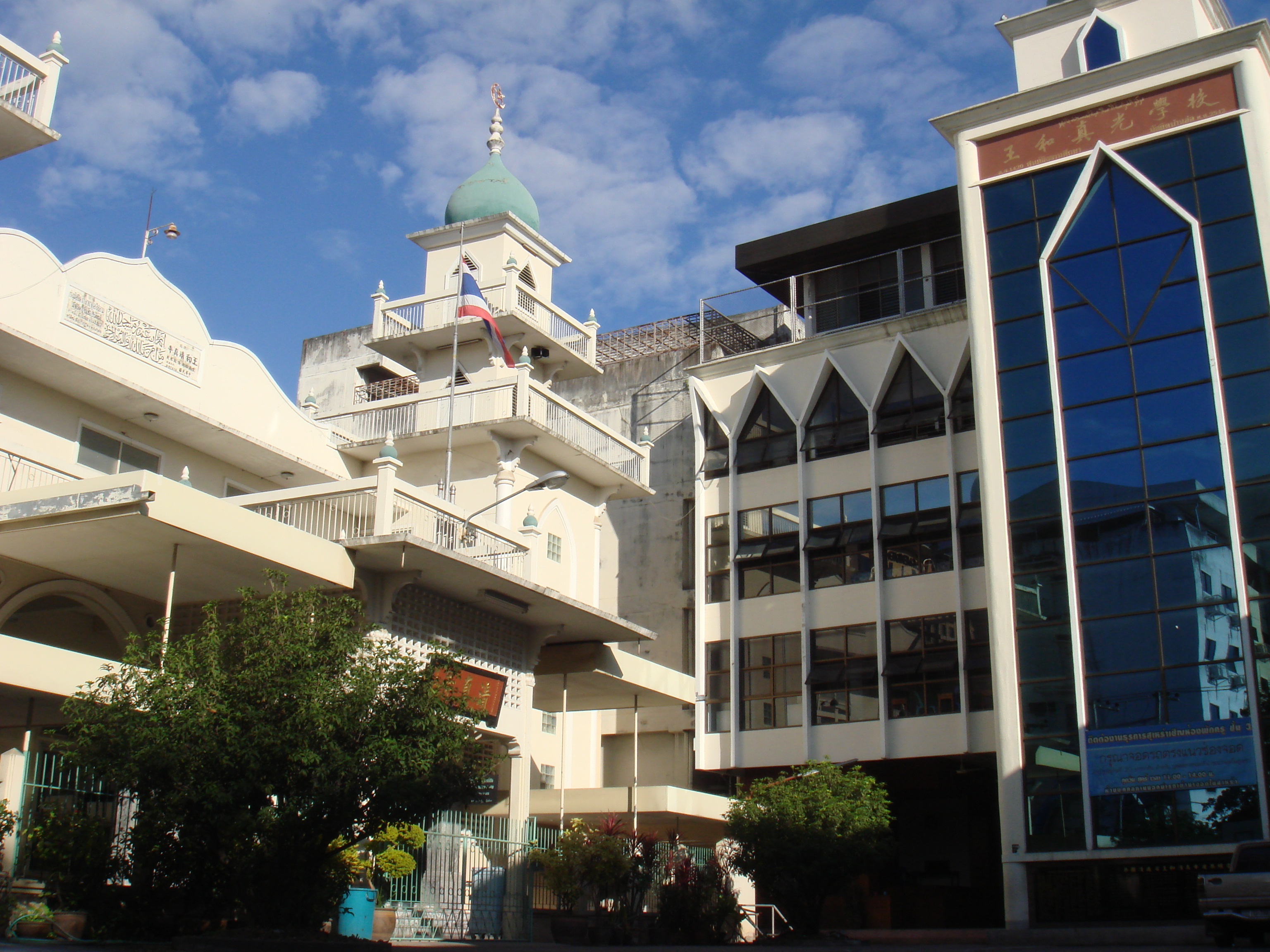 Ban Hoe Mosque (, ), located at Night Bazaar in Chiang Mai, is one of the biggest mosques in the province.